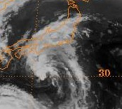 Tropical Storm Waldo on September 21, 1998